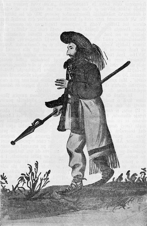 Peasant from the Făgăraş area.